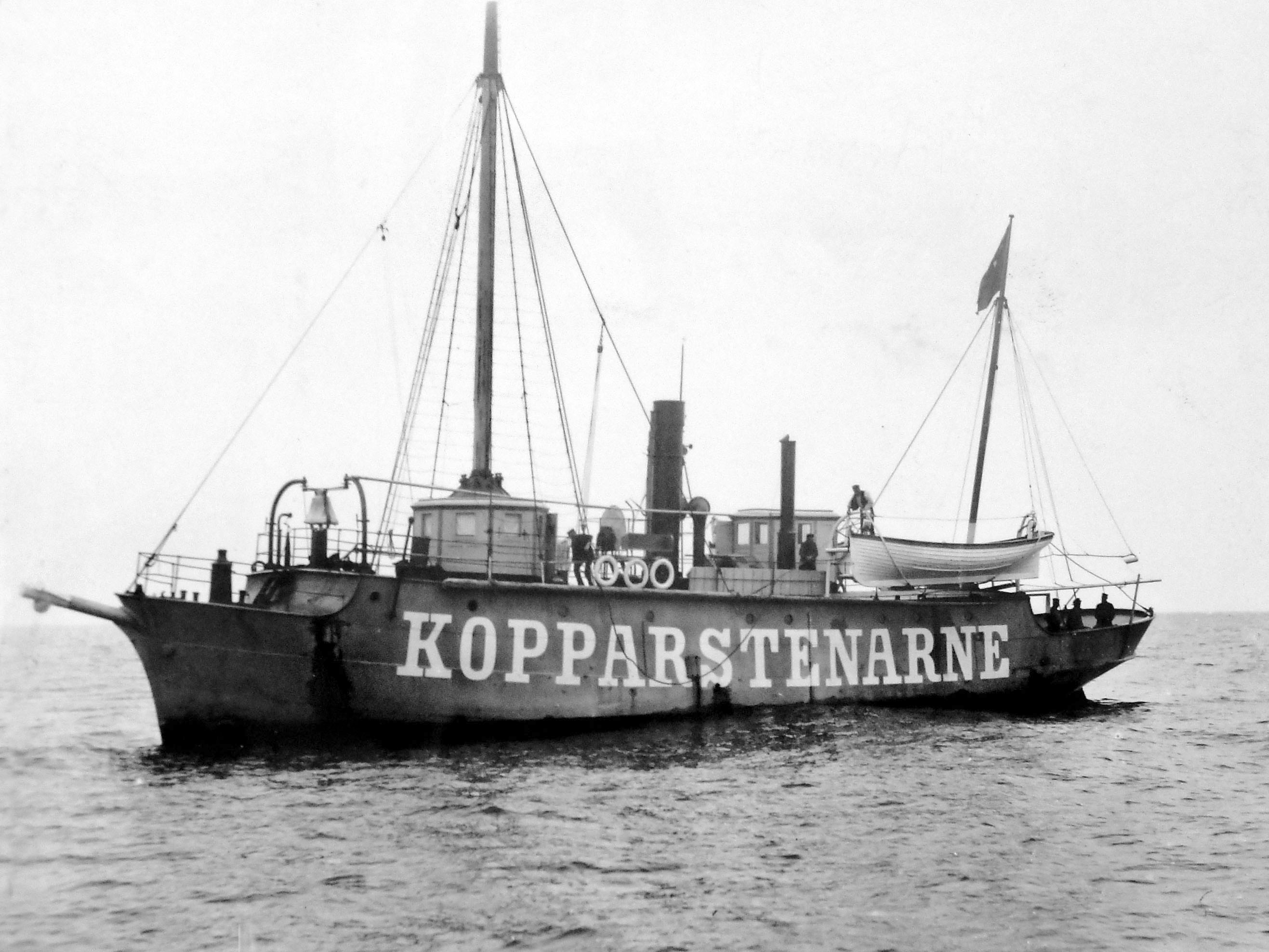 Lightship No. 16 Kopparstenarna